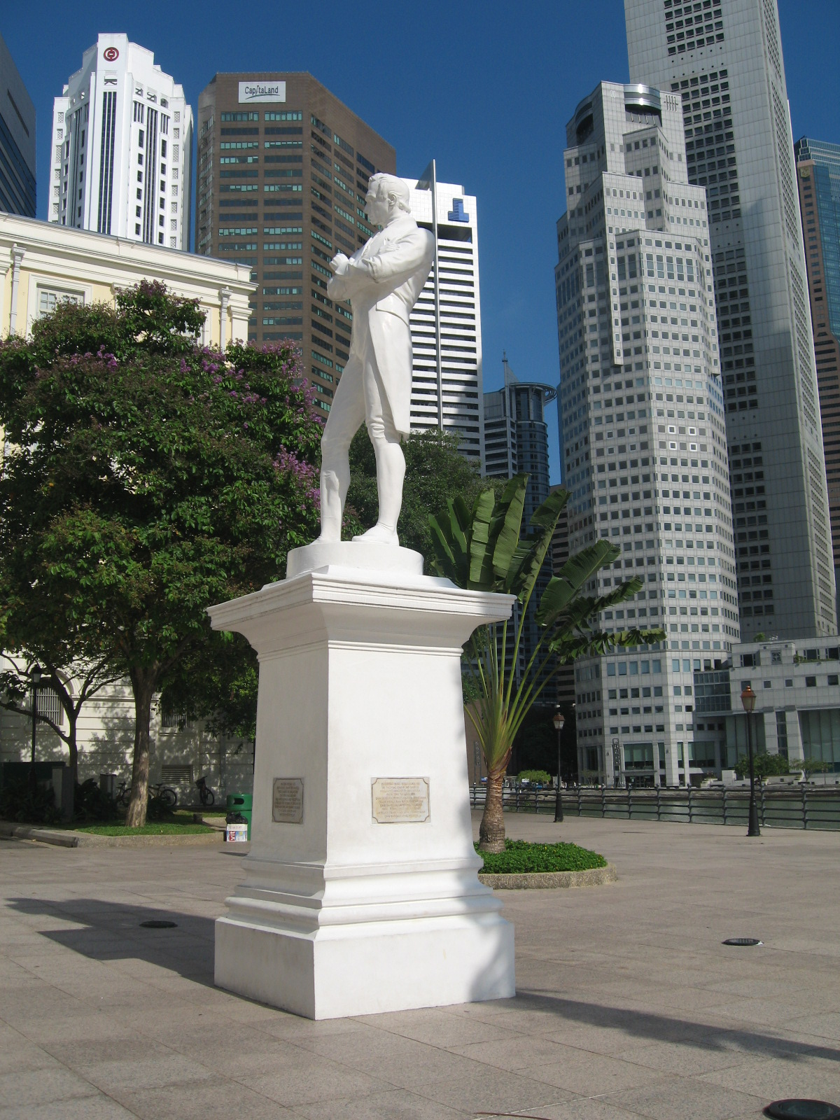 Raffles Landing Site.